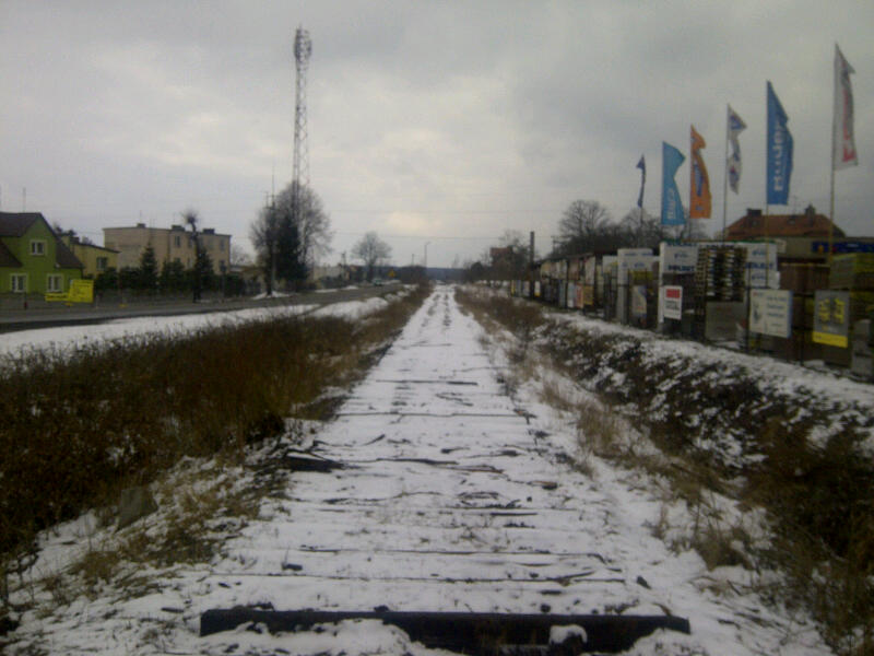 Formal railroad Oborniki - Wronki, place Obrzycko